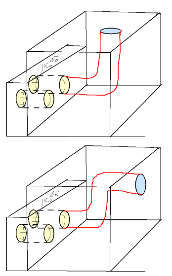 Concretepump in elephant and S forms